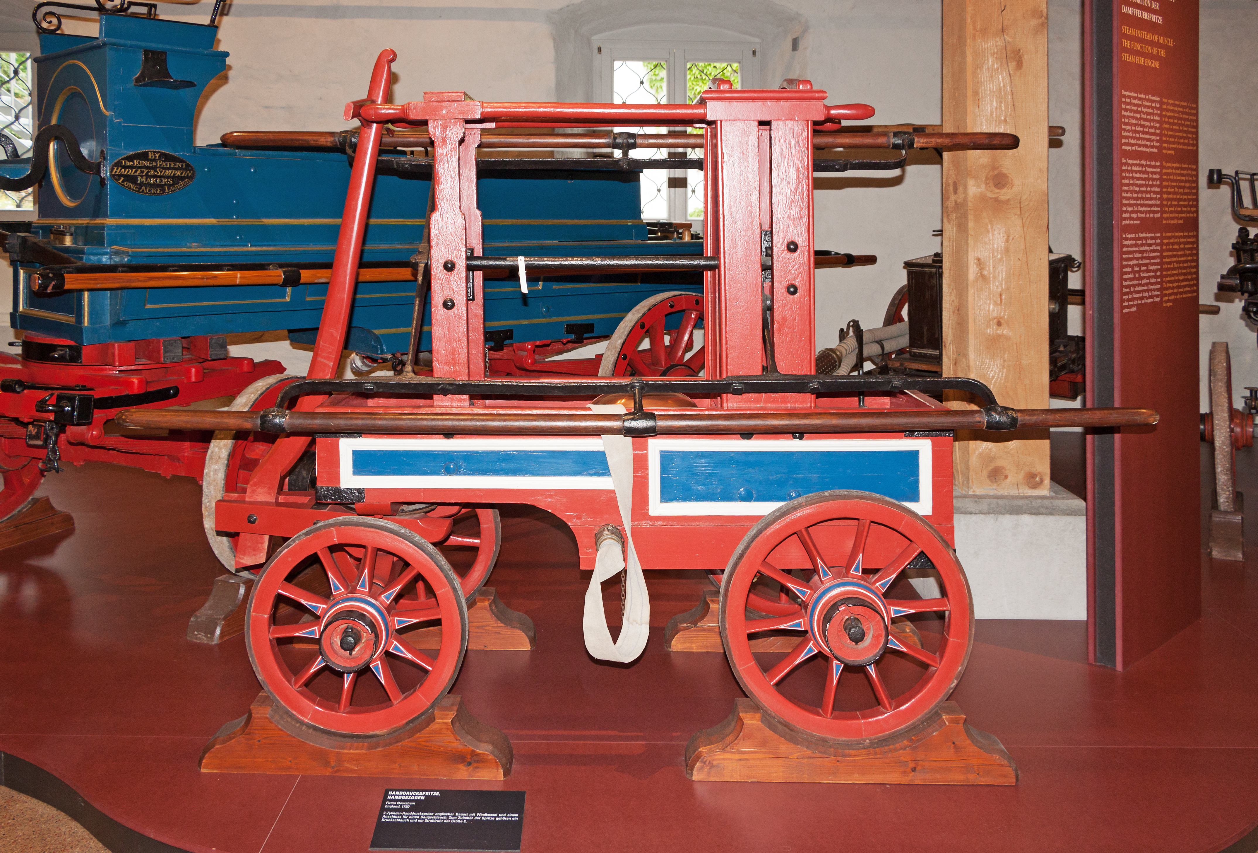 Hand-drawn fire engine by Newsham and Ragg, 1780, England; Feuerwehrmuseum Salem, Baden-Württemberg, Germany.